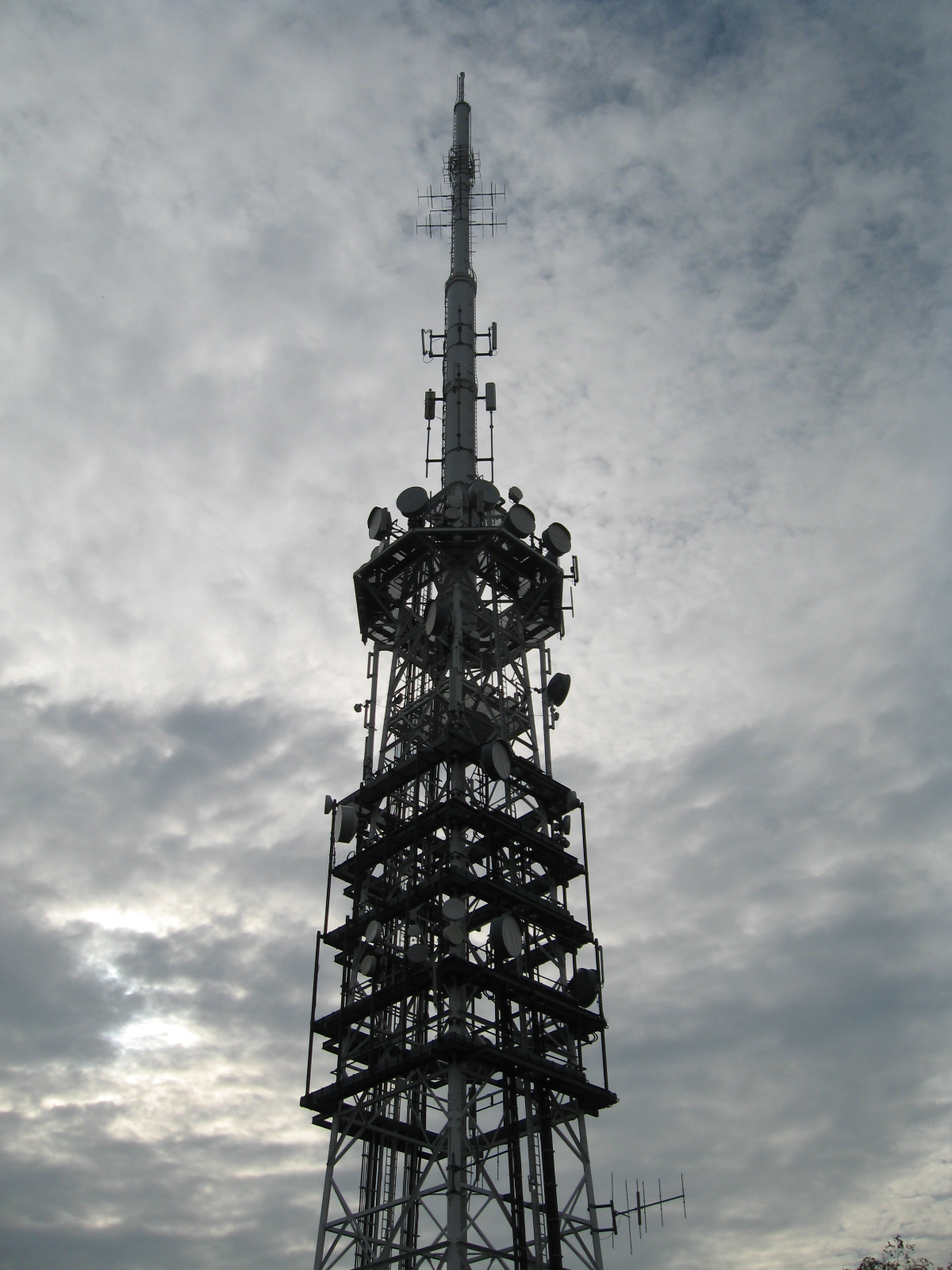 Radio tower in town of Herford, District of Herford, North Rhine-Westphalia, Germany.